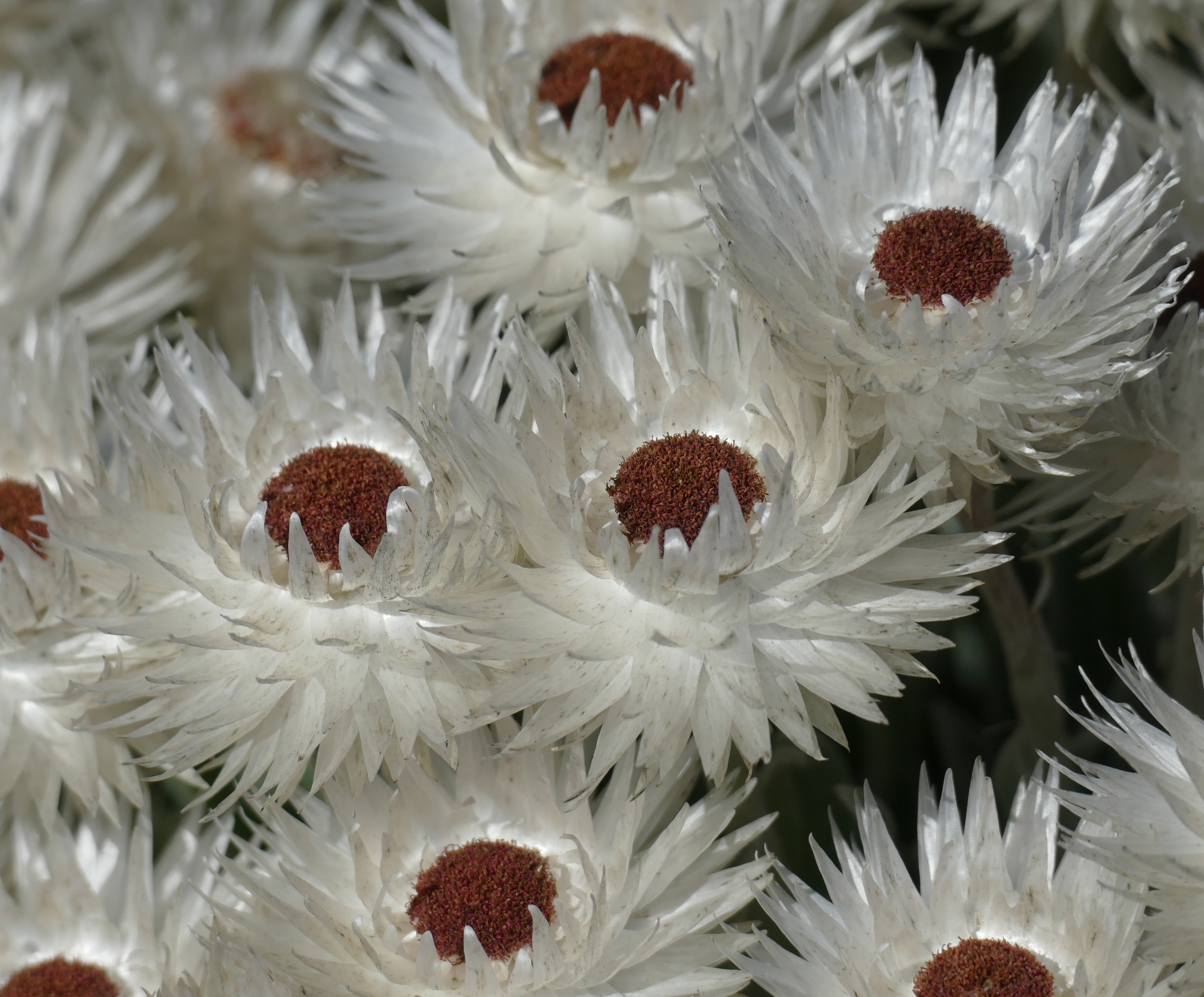 Cape of Good Hope Peninsula, Table Mountain NP, Western Cape, SOUTH AFRICA